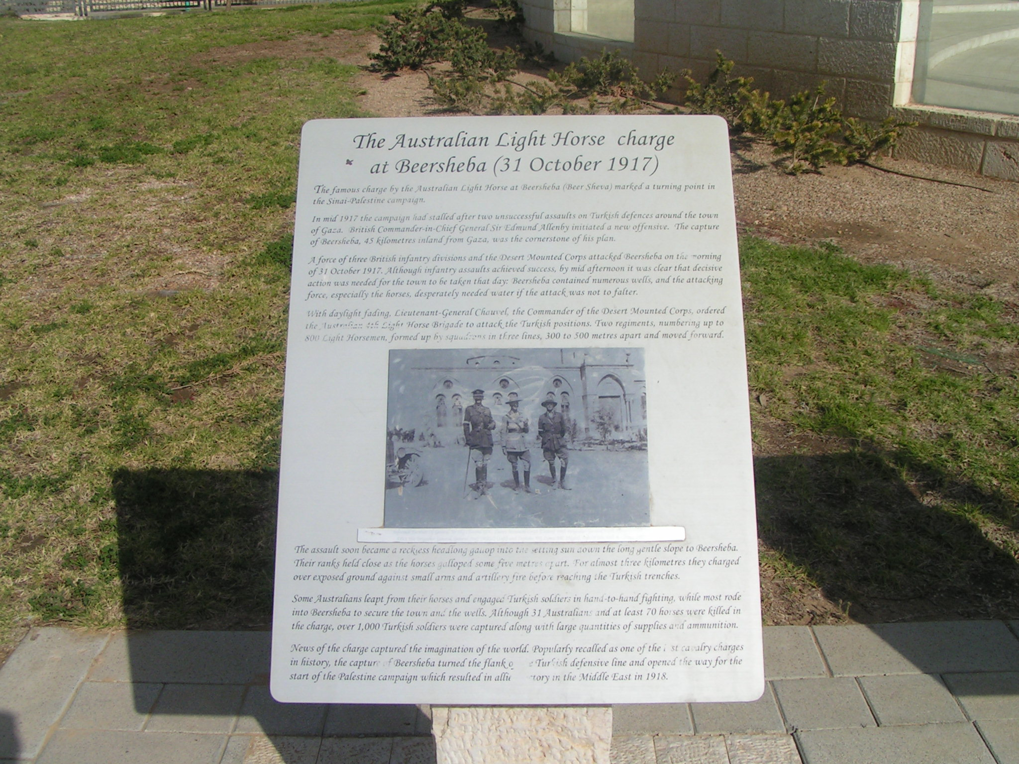 The park commemorates the Australian soldiers who liberated the Beersheba from the Turks as part Mmatakptho General Allenby\'s conquest of Palestine in World War. The center stands a statue of retired Australian on his horse. Adjusted proportion of ch